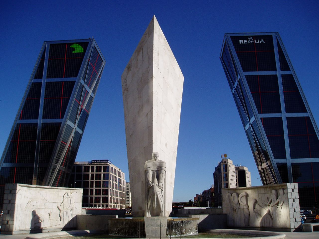 Plaza de Castilla (square) in Madrid (Spain): Monument to José Calvo Sotelo and Puerta de Europa buildings.